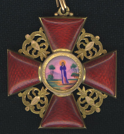 Order of St. Anna 1st